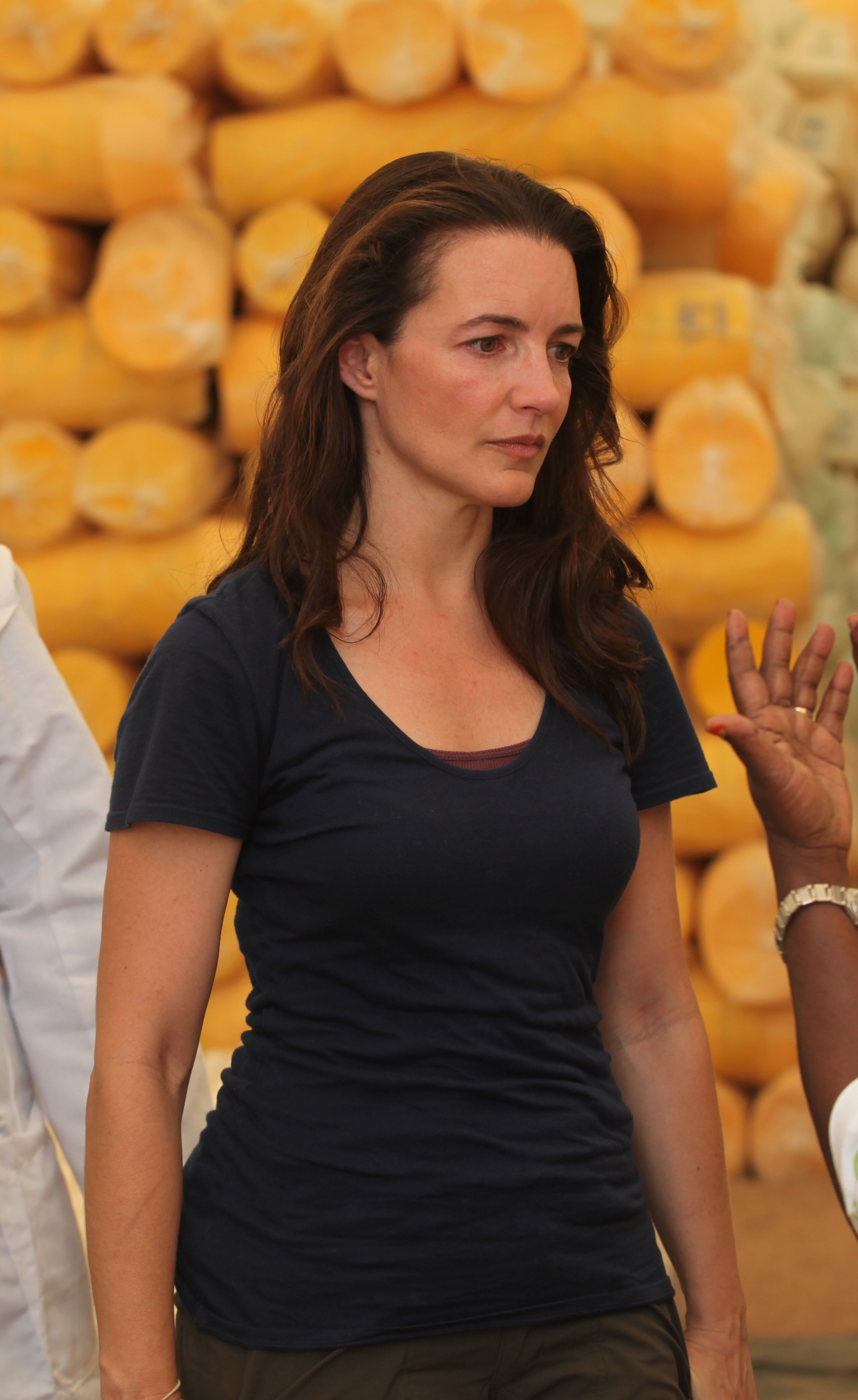 Actress Kristin Davis in Oxfam warehouse in Dadaab, Kenya. 08 July 2011